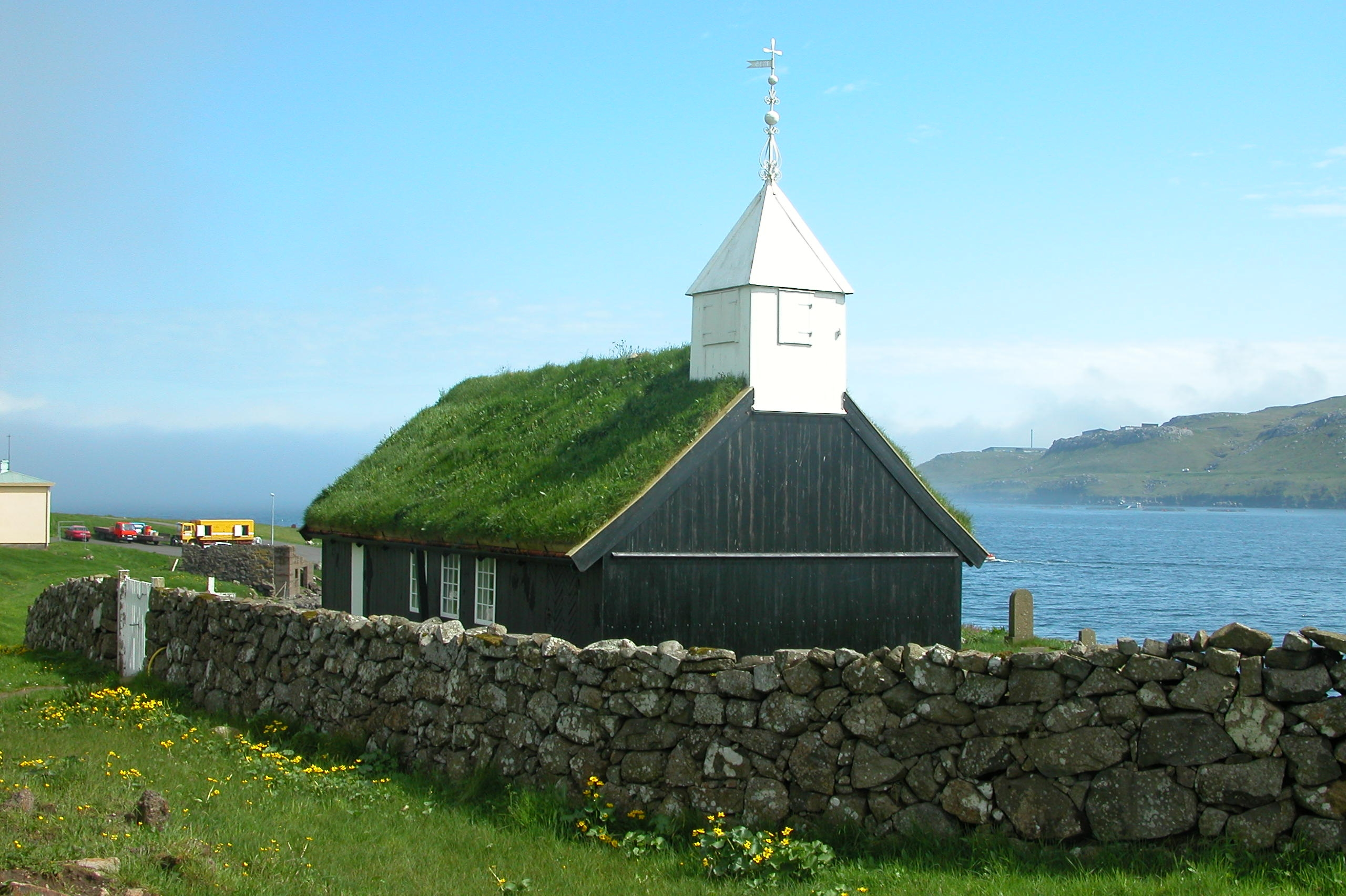 Church of Kaldbak on Streymoy, Faroe Islands